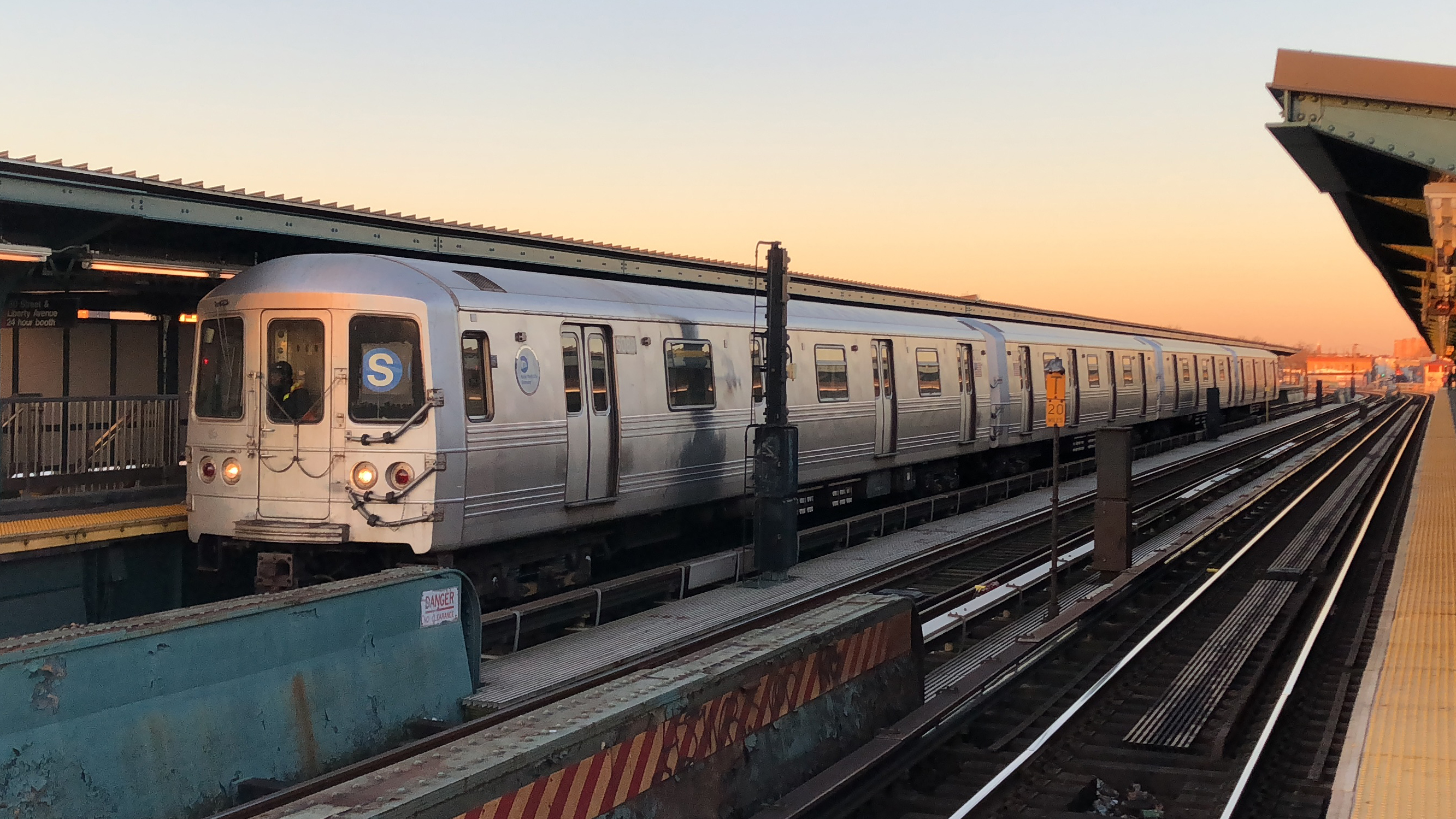 Lefferts Blvd-bound MTA NYC Subway A-Lefferts Blvd Shuttle train of Pullman Standard R46 cars at 80th St